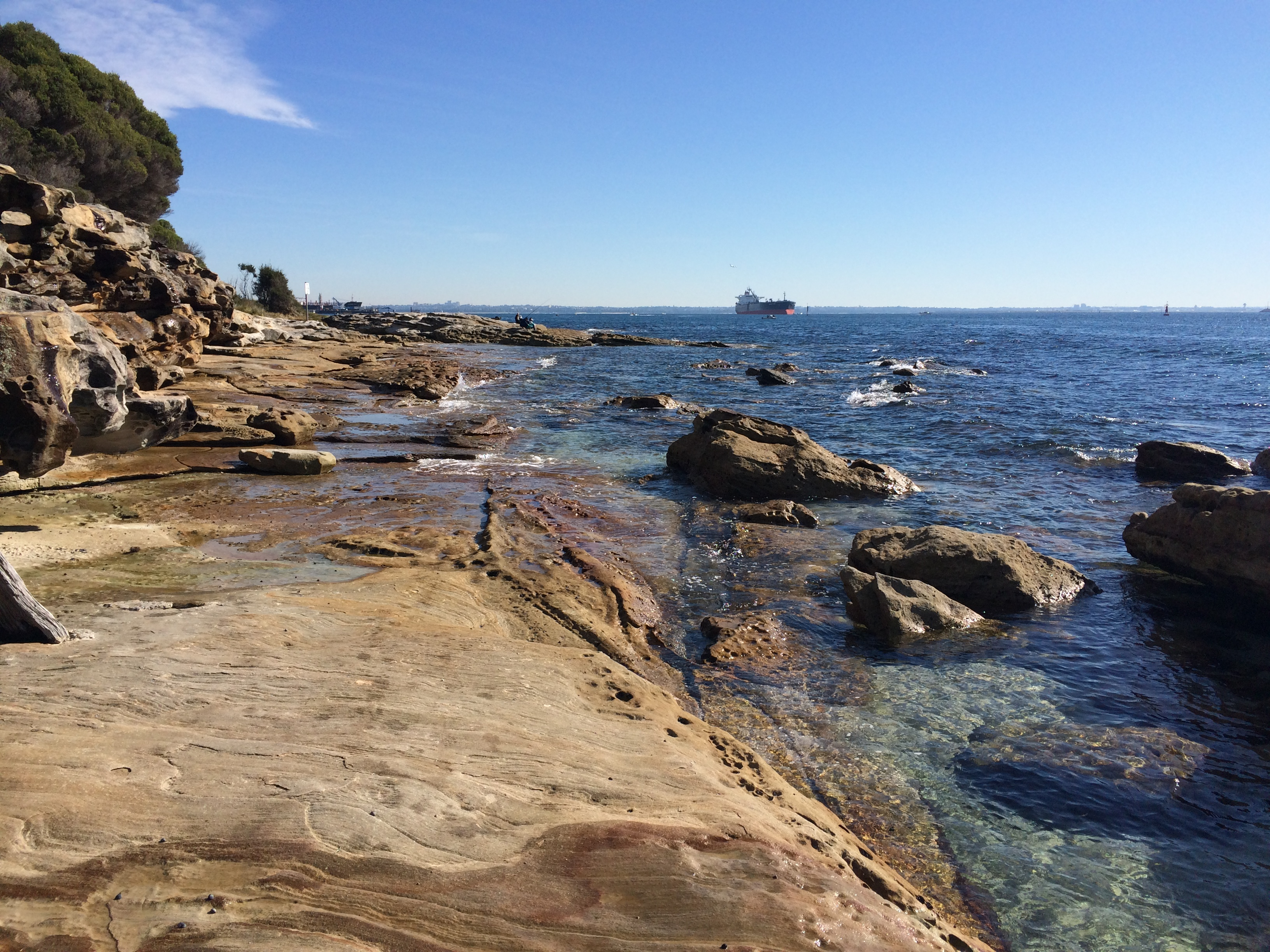 In this image, taken from Inscription Point on the South Head region of Kamay Botany Bay National Park, we look across Botany Bay, looking northwest in the direction of an outbound cargo ship, presumably originating from Port Botany. In the foreground, weathered and eroded rocks sit idle in the water and are constantly splashed by the occasional wave.